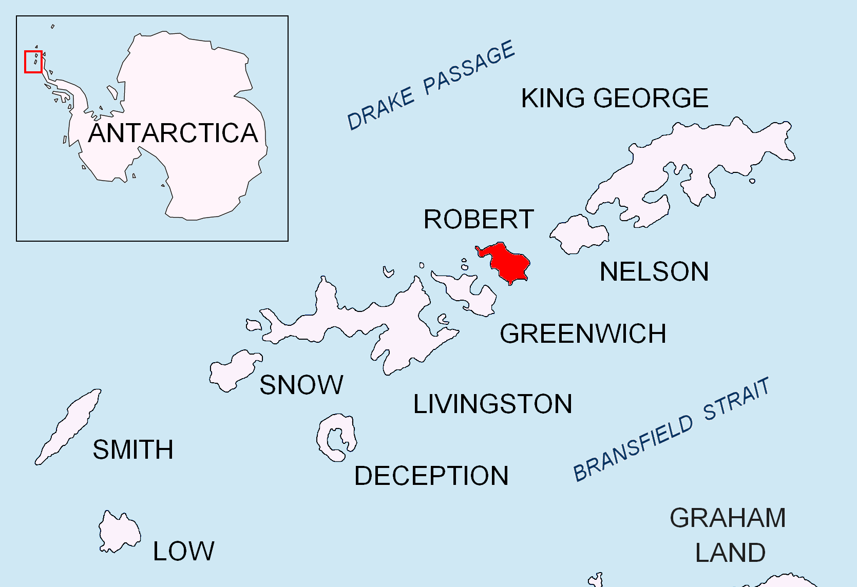 Location map of Robert Island in the South Shetland Islands.